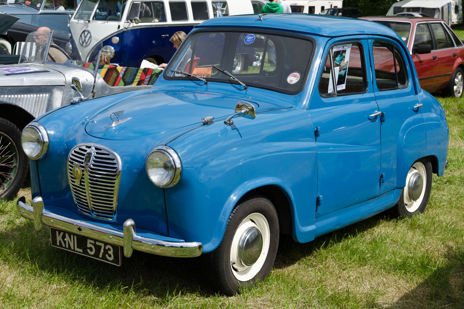 Heskin Hall Steam Fair 02/06/2013